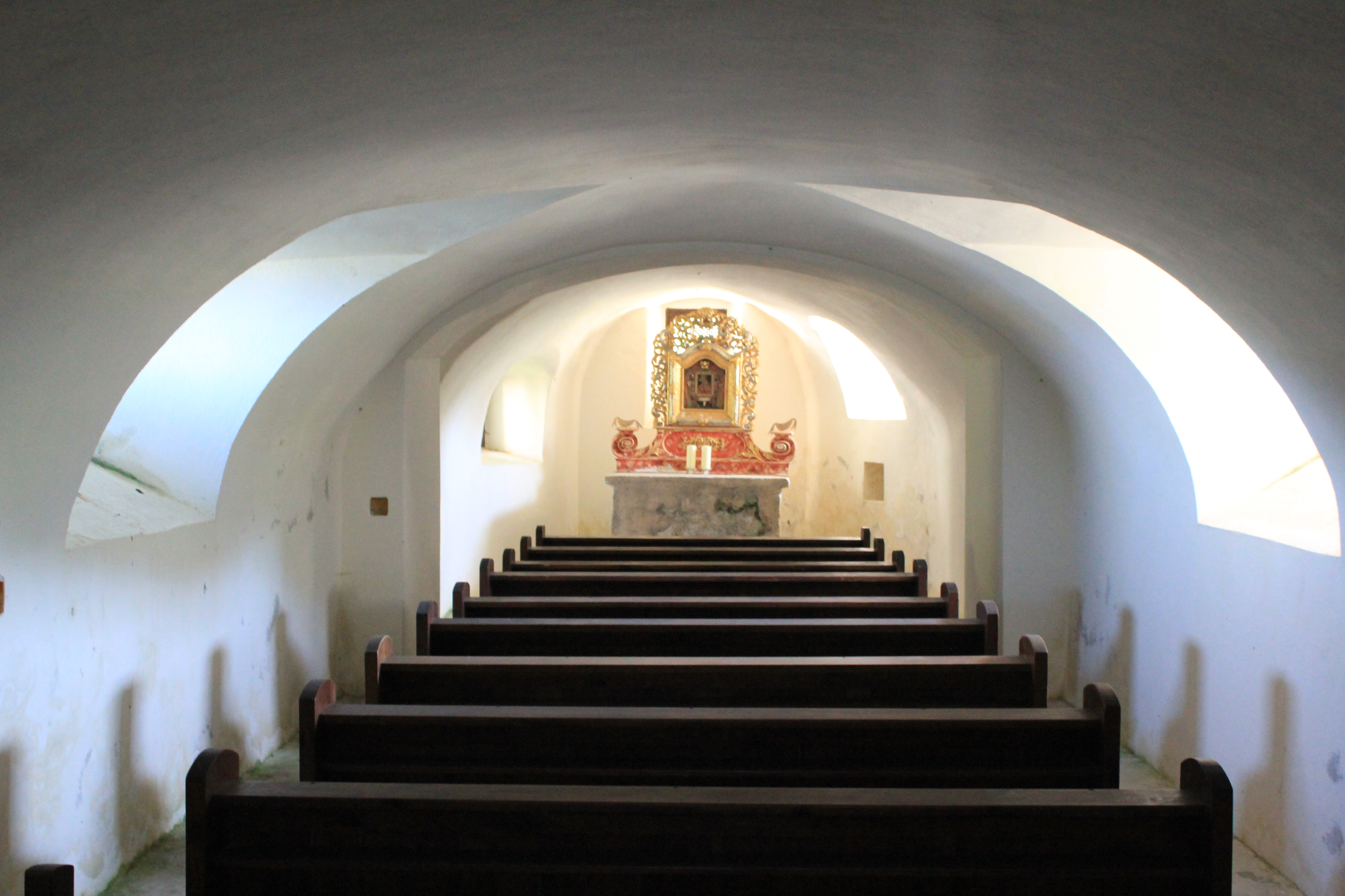 Johannessberg-church in Sankt Paul im Lavanttal